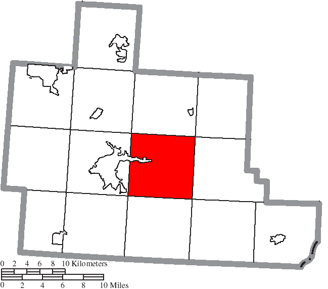 Map of the municipal and township boundaries of Athens County, Ohio, United States, as of the 2000 census, with the location of Canaan Township highlighted. Township borders are shown only in unincorporated areas in order to differentiate incorporated and unincorporated areas more clearly.